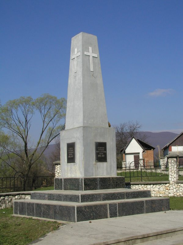 Memorial of a soviet work camp victims, Svaliava, Ukraina, 2004